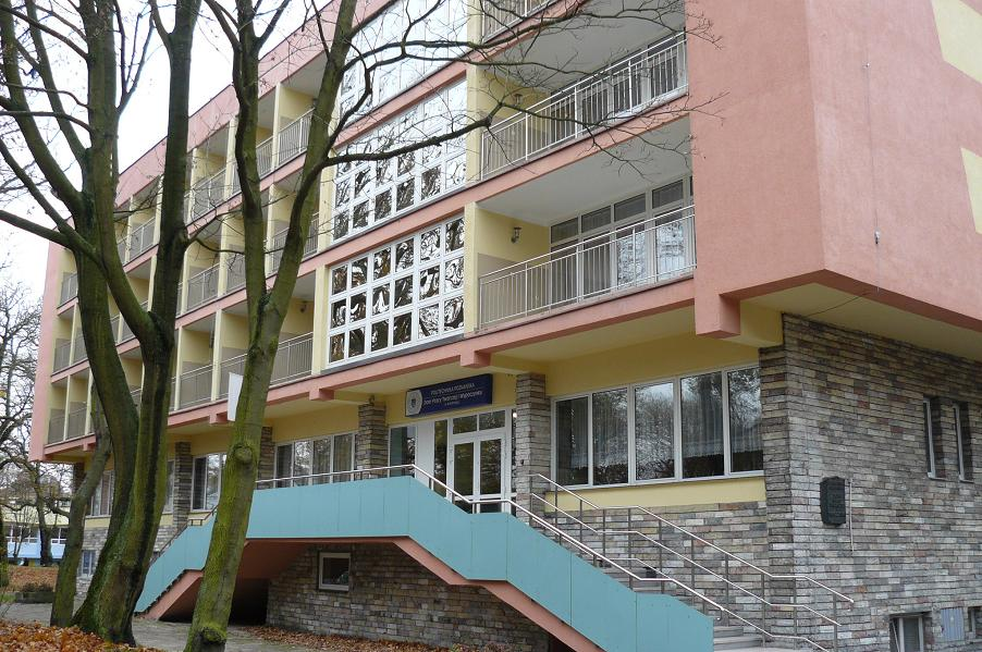 Kolobrzeg - Holiday House of Tech. University of Poznan.